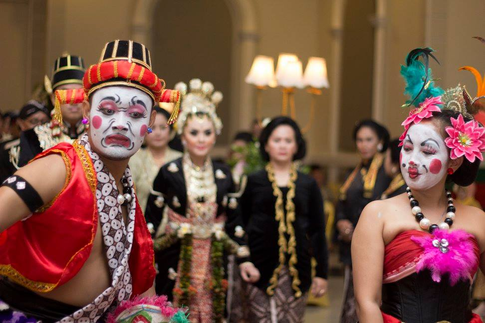 Is one of a series of Javanese traditional wedding processions, especially Yogyakarta, Indonesia. This photo has been taken in the country: Indonesia